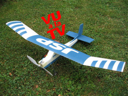 a picture of polyclub